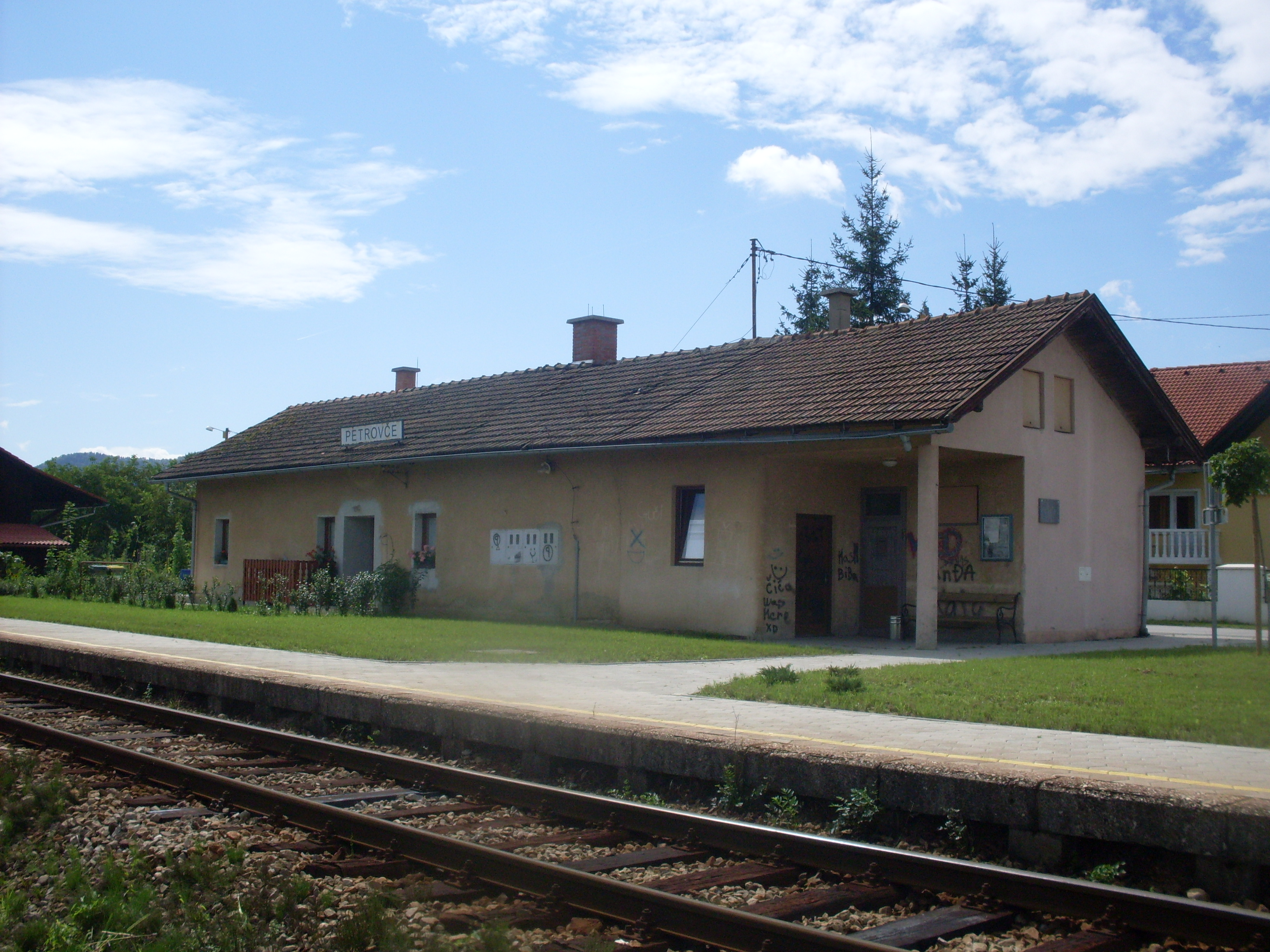 Railway halt in PetrovčeSlovenščina: Železniško postajališče Petrovče